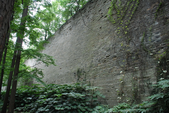 南京明城墙之玄武门段(Near XuanWu Gate, NanJing Ming Great Wall)